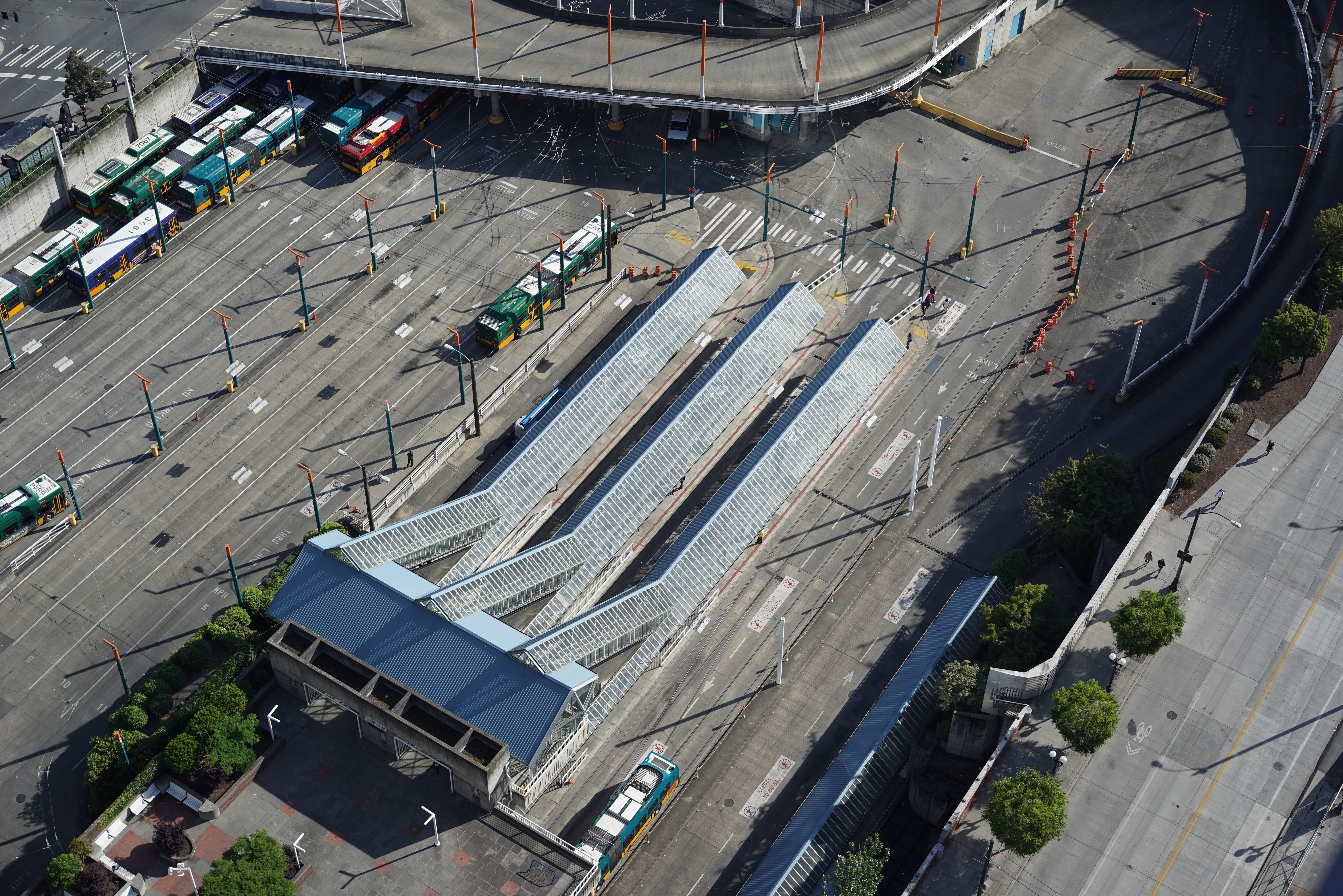 Aerial view of Convention Place Station, the northern terminal of the Downtown Seattle Transit Tunnel.